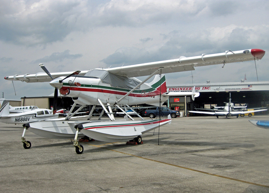 DHC-2 Beaver Turbo C6-BIQ with PT-6 turbo conversion by Wipair retaining original fin shape and fitted with wheeled floats. At Bartow Municipal, Florida.